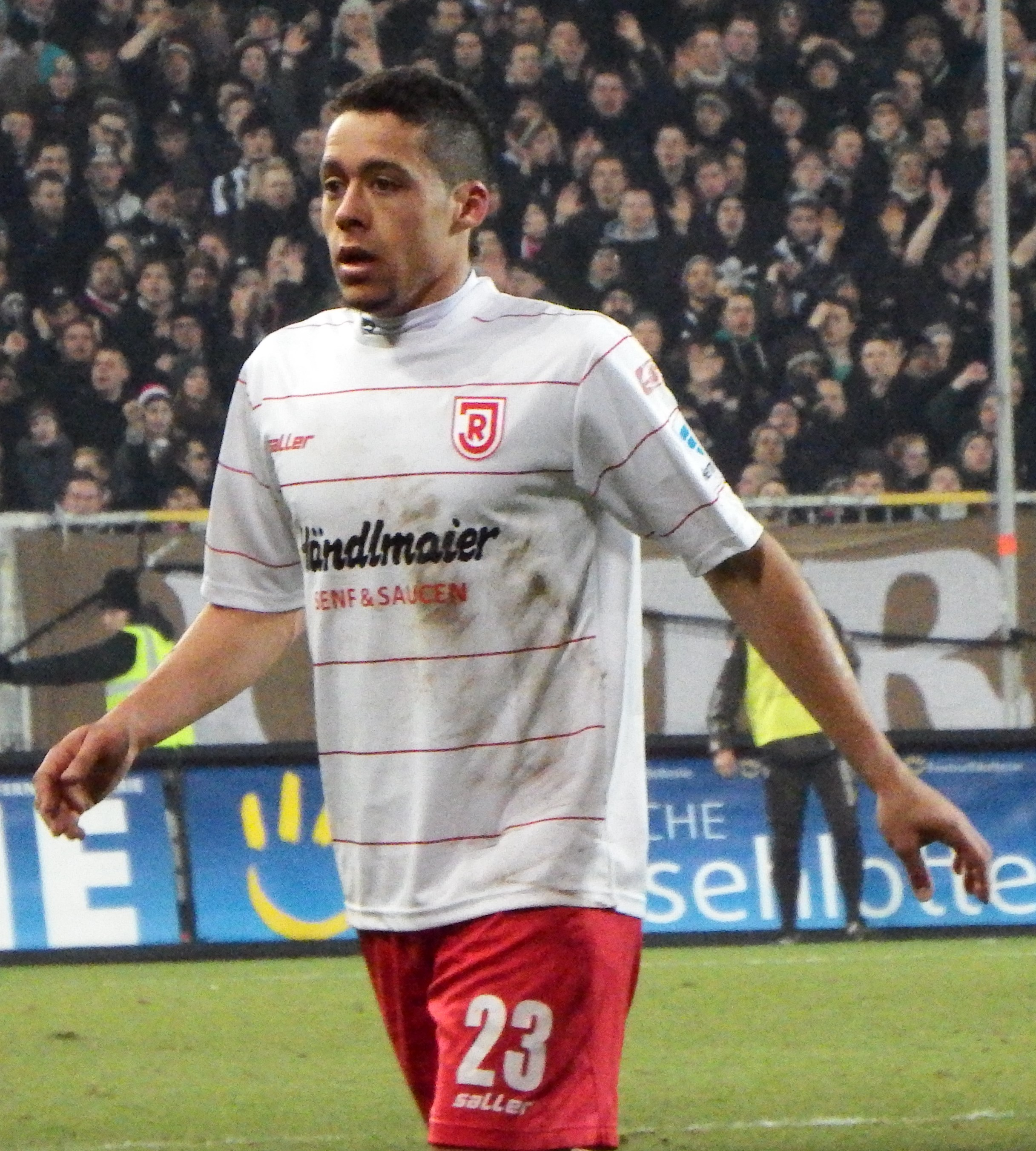 Ramon Machado as Player from Jahn Regensburg